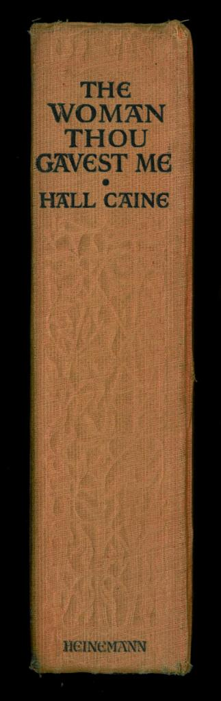 The spine of the 1920 popular edition of Hall Caine's The Woman Thou Gavest Me